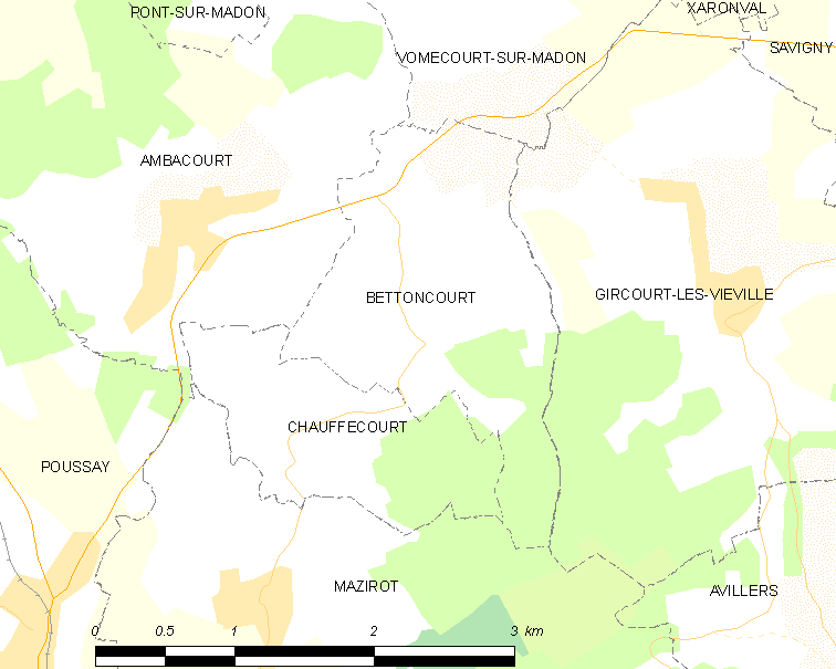 Map of French municipality Bettoncourt